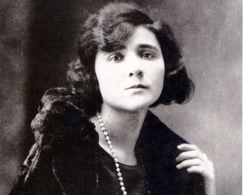 Black-and-white photo of Florbela Espanca (1894—1930)